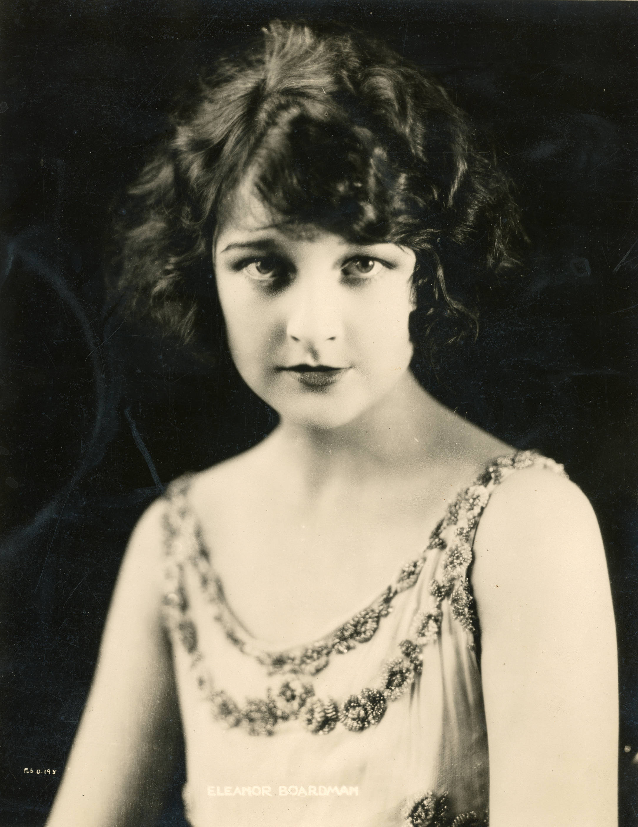 Silent film actress Eleanor Boardman. Subjects: actresses